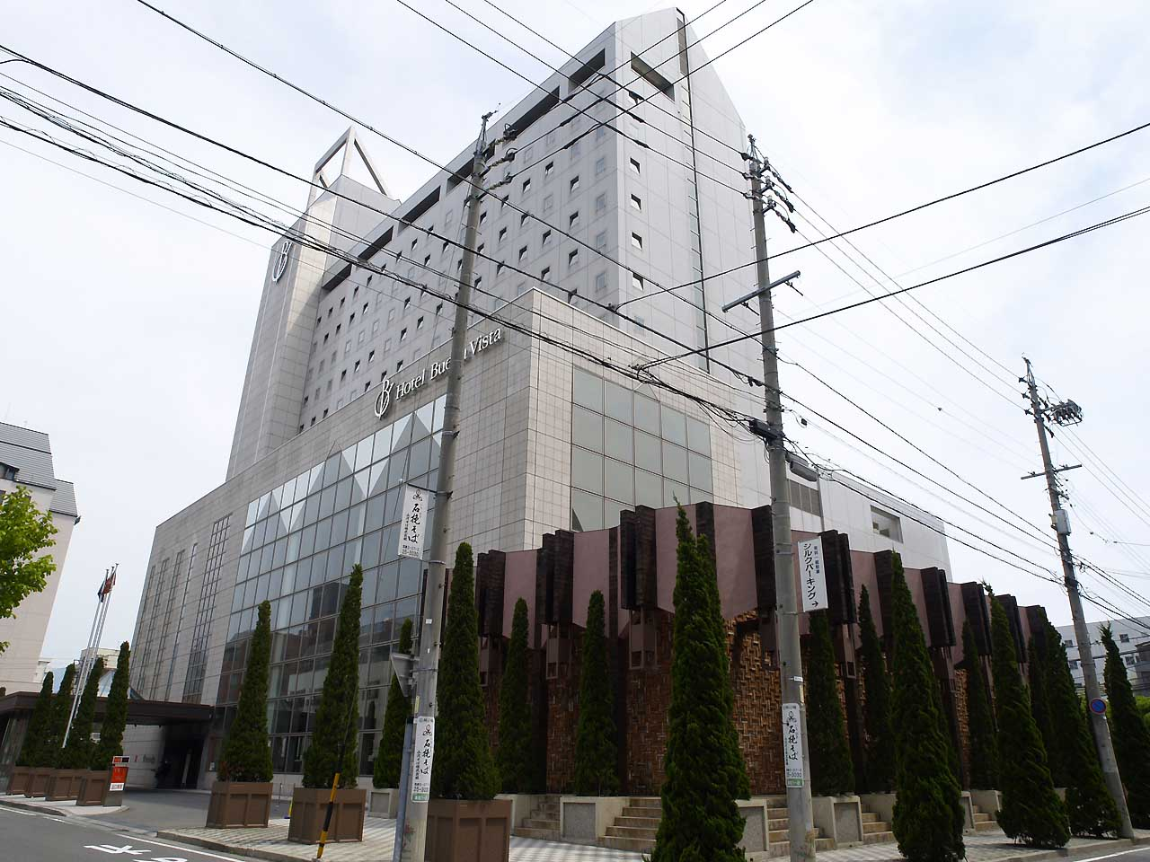 Outside of Hotel Buena Vista, located in Matsumoto city, Nagano Japan.